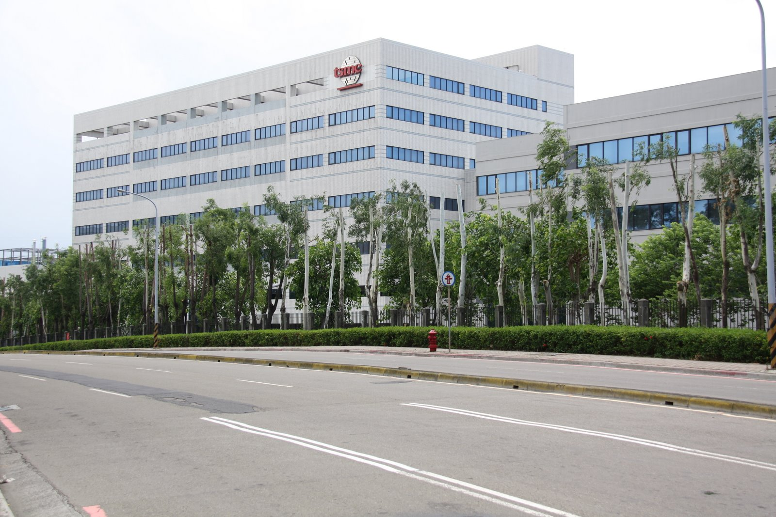 TSMC factory building in Hsinchu (Taiwan).